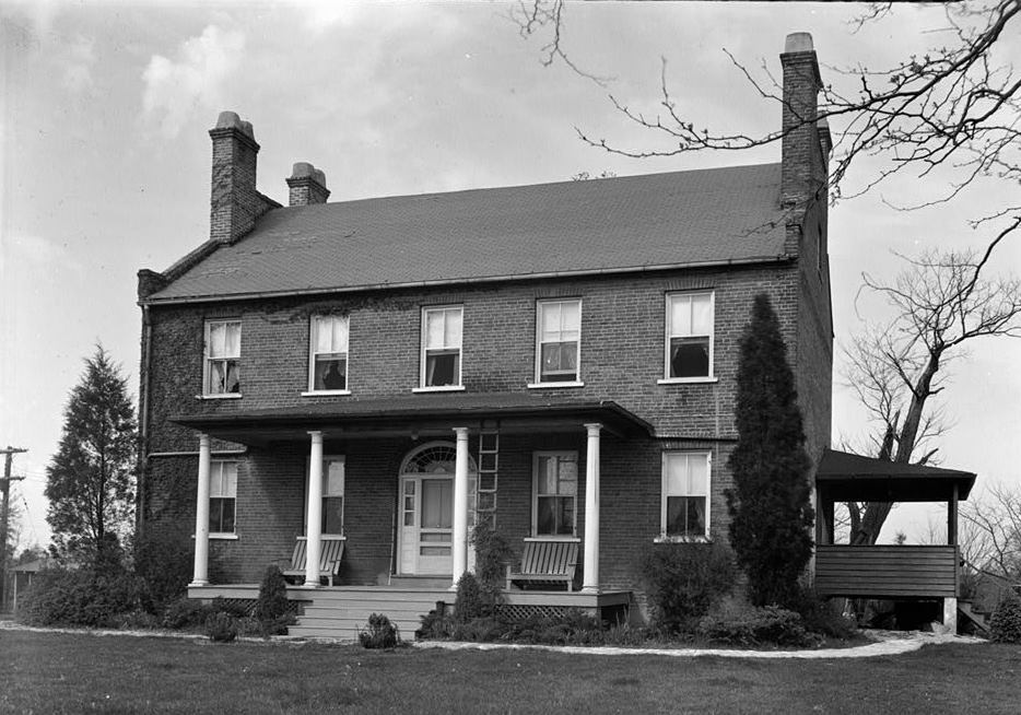 1. Historic American Buildings Survey John O. Brostrup, Photographer April 30, 1936 2:55 P.M. VIEW FROM SOUTHWEST (front) - Beall's Pleasure, Landover Road Vicinity, Landover, Prince George's County, MD